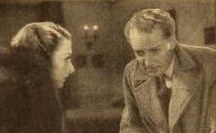 Otto Kruger and Karen Morley in the 1934 film, The Crime Doctor. Other information for an explanation of the copyright for information regarding public domain